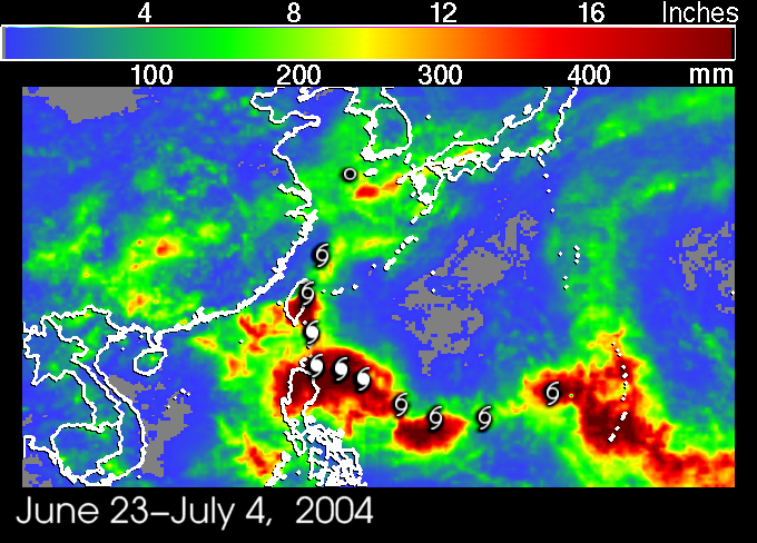 Estimated rainfall values of the Western Pacific from the Tropical Rainfall Measurement Mission (TRMM) from June 23 to July 4, 2004. Highlighted is the rainfall left behind by Typhoon Mindulle.